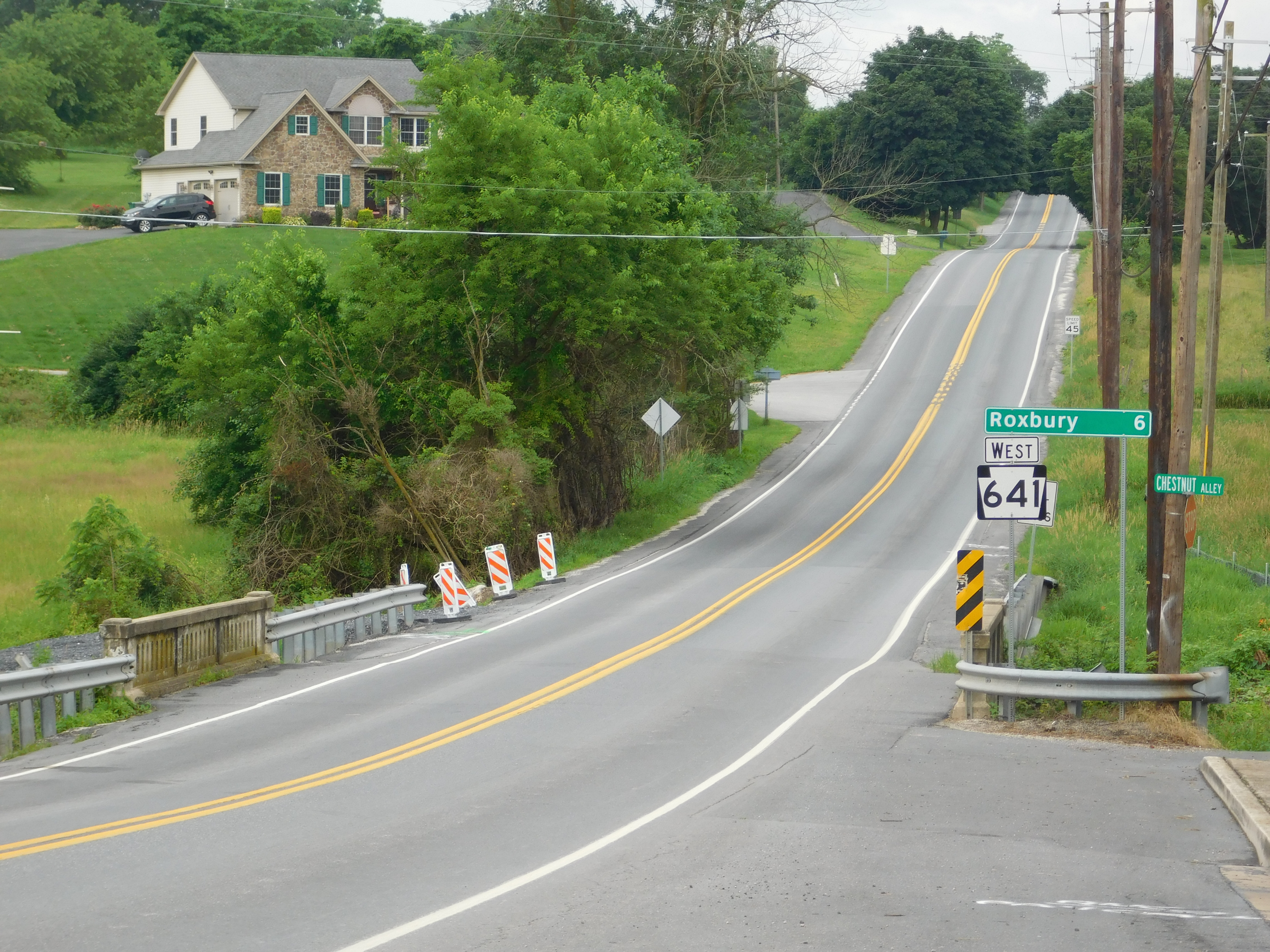 PA 641 westbound in Newburg, Pennsylvania.